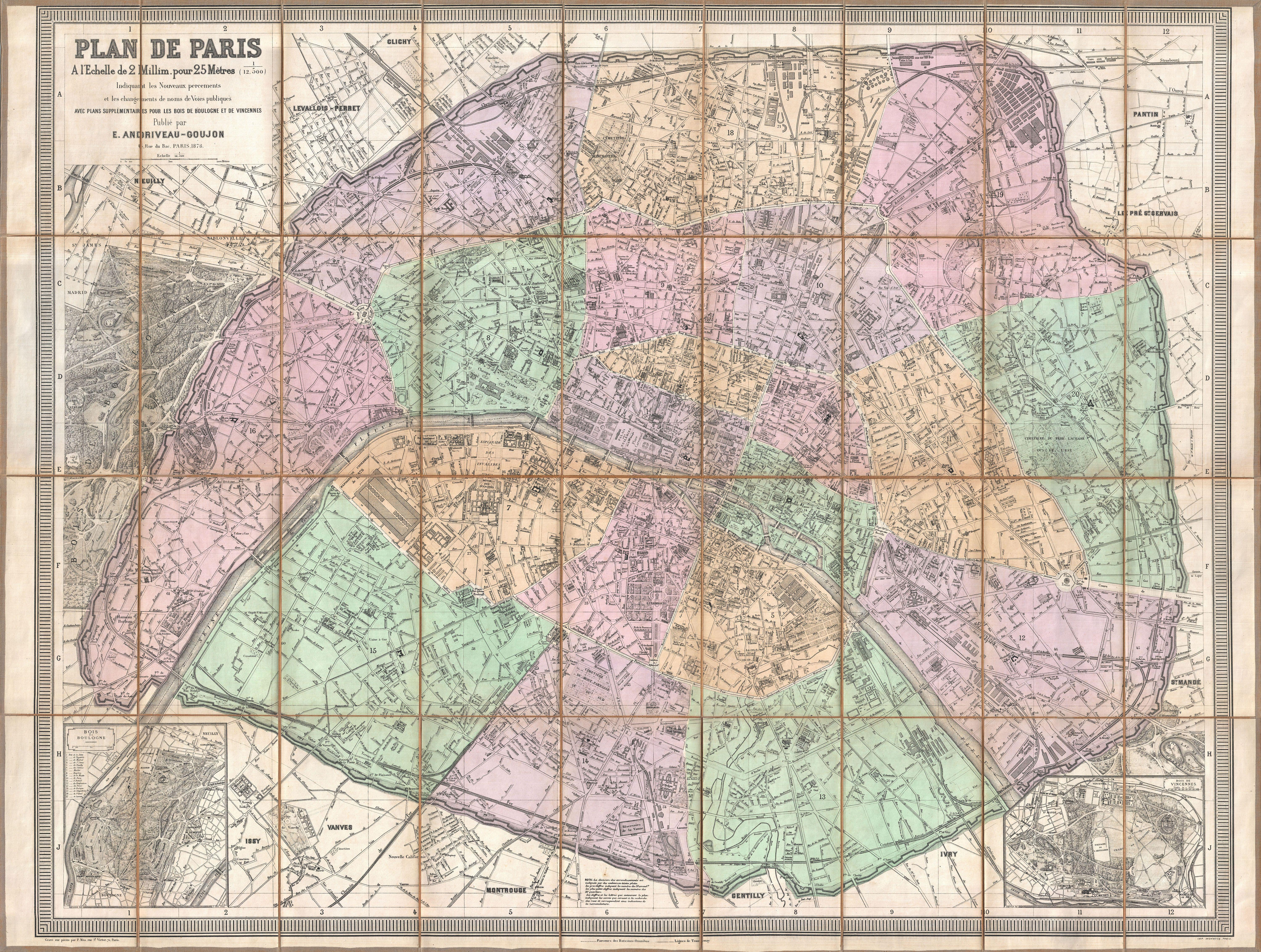 A stunningly executed 1878 large format folding pocket map of Paris, France by E. Andriveau-Goujon. Focuses on the old walled center of Paris from Neuilly in the northwest to Pantin in the northeast, Issy in the southwest, and Ivry in the southeast. Inset maps detail the gardens of Bois de Boulogne and Bois de Vincennes. Offers extraordinary detail of the city on a scale of 1:12,500. Details individual buildings, streets, monuments, gardens and palaces. Shows exceptionally remarkable attention to detail in the public gardens where subtle expressions of landscape design are apparent. Predates the Eiffel tower. Color coded by arrondissement. Engraved by P. Mea of 70 Rue St. Victor, Paris for E. Andriveau-Goujon of 4 Rue du Bac, Paris, 1878.